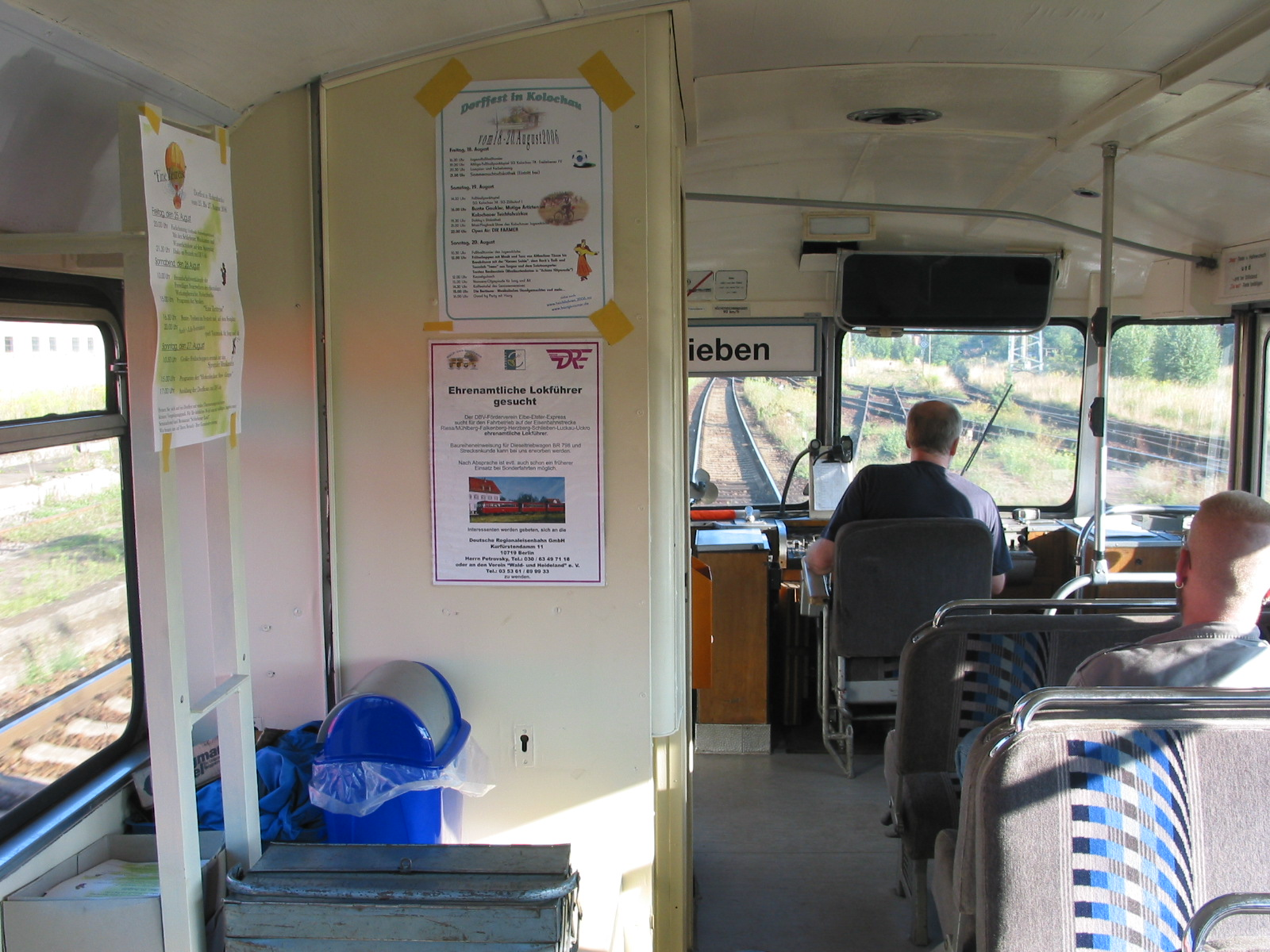 Elbe-Elster-Express in search of lokomotive drivers